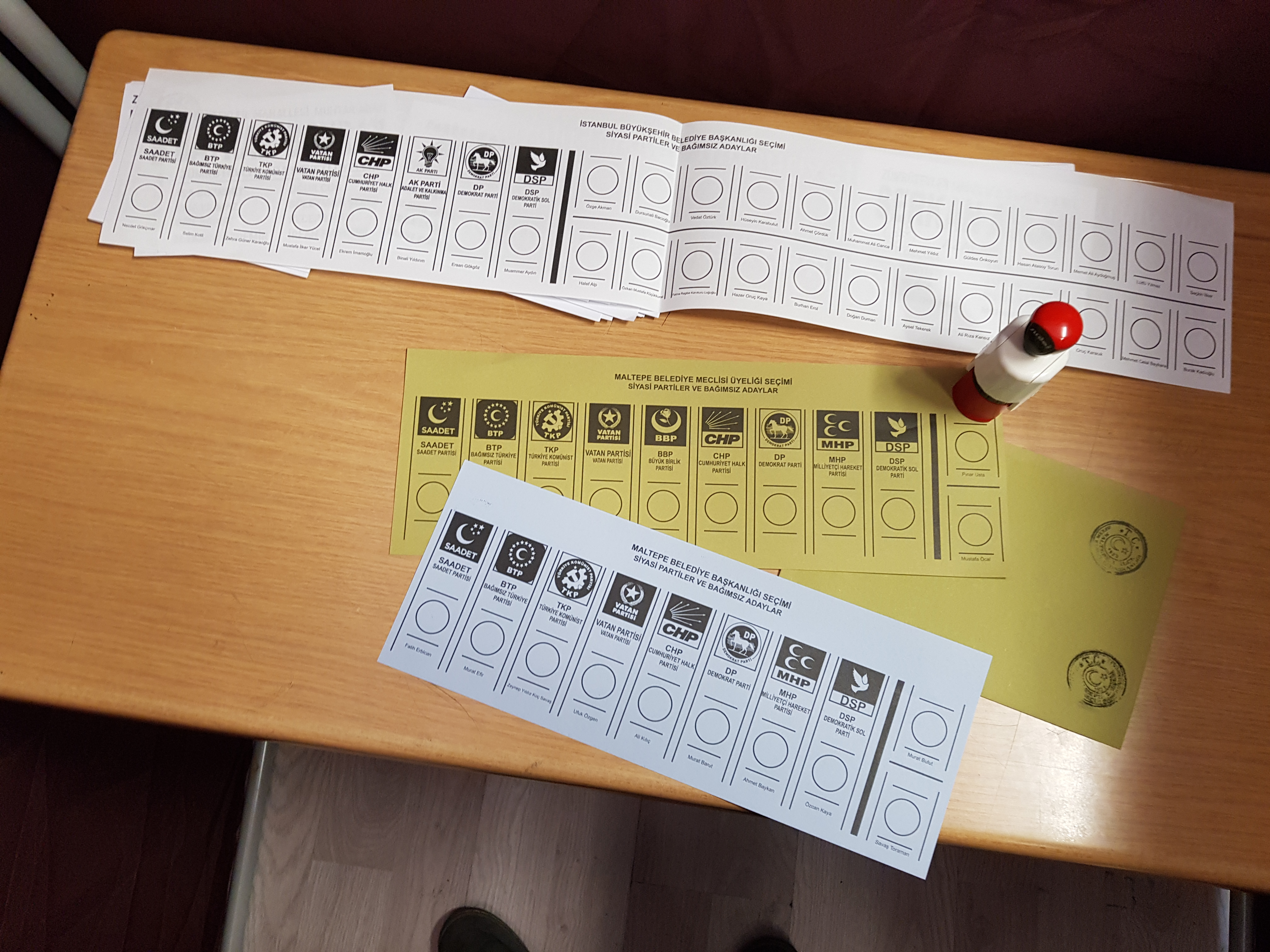 2019 İstanbul mayoral election ballot